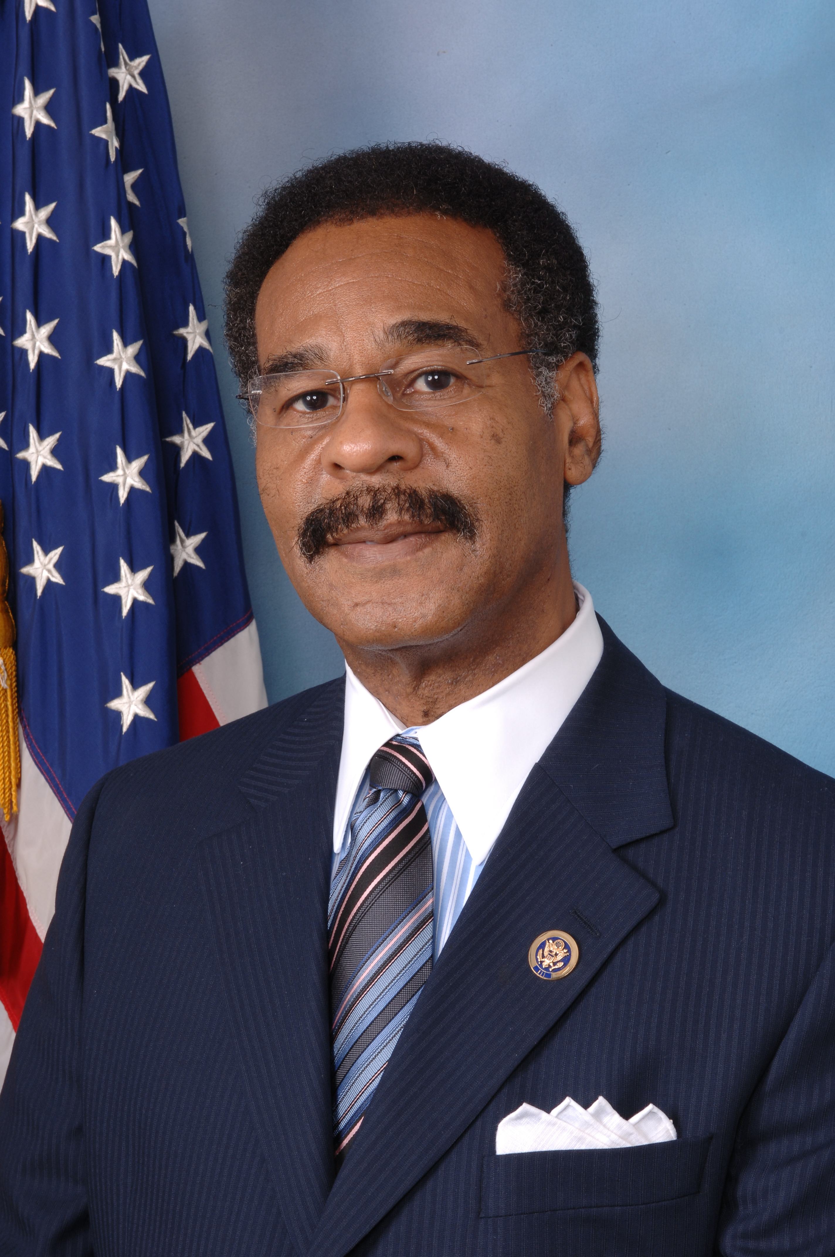 Emanuel Cleaver, member of the United States House of Representatives.